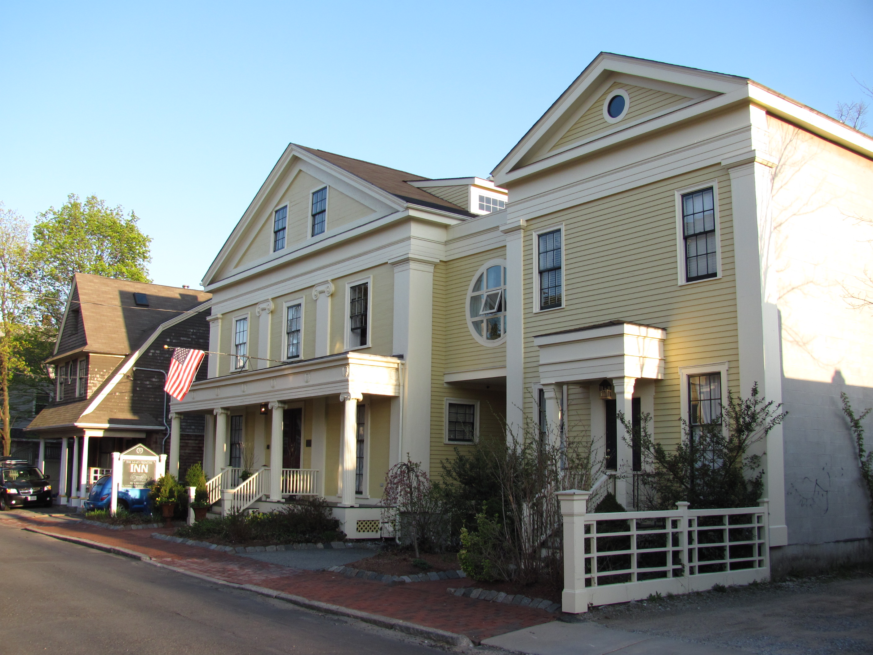 Mary Prentiss Inn, Cambridge Massachusetts - on the NRHP as the William Saunders House